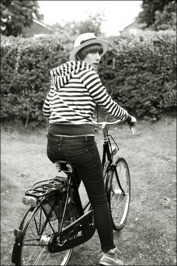 Me and my new Pashley